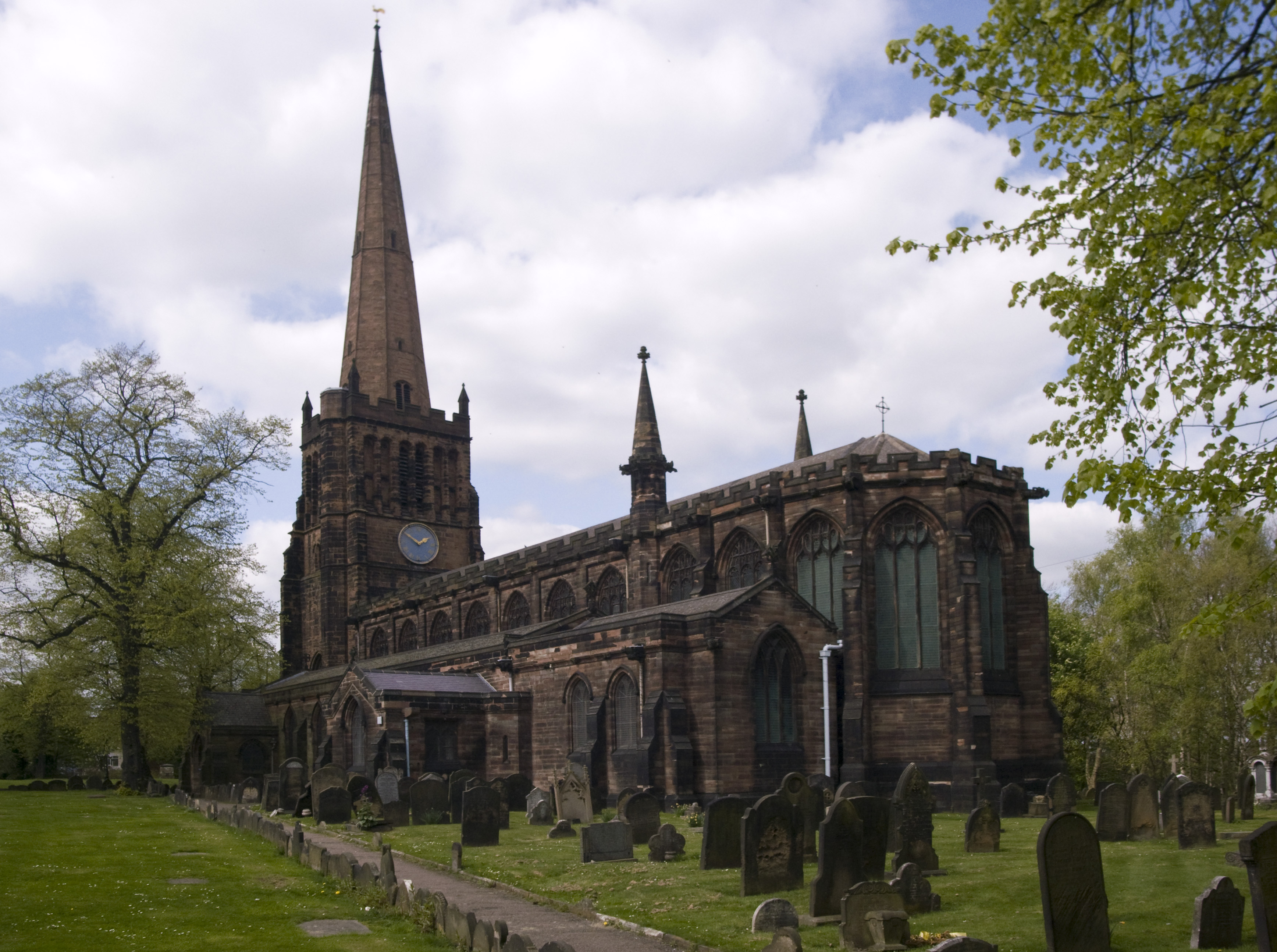 Church of England parish church of SS Peter and Paul, Witton Lane, Aston, seen from the southeast